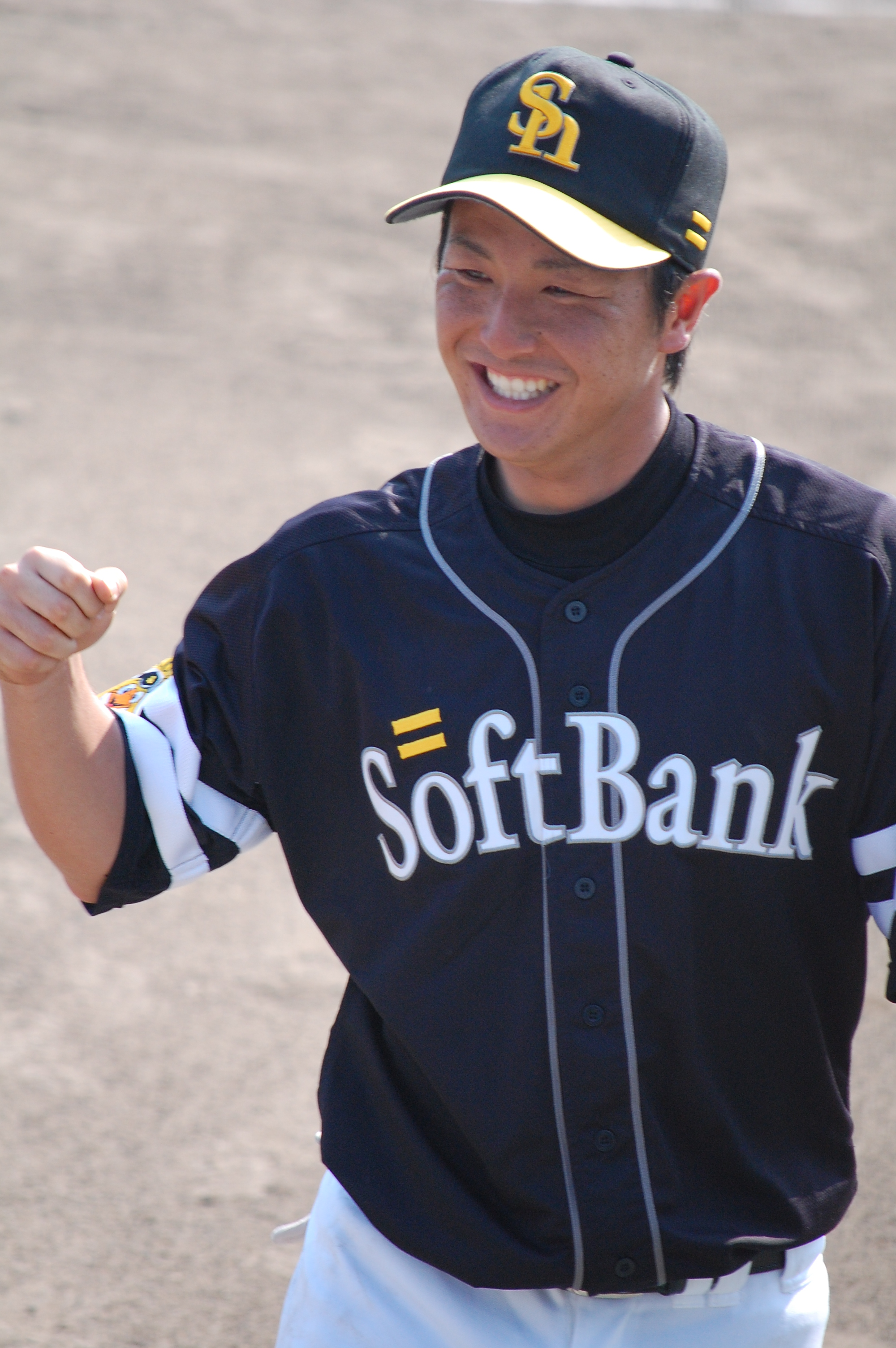 Tomoaki Egawa, outfielder of the Fukuoka SoftBank Hawks, at Nagoya Baseball Stadium.